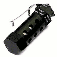 The M84 stun grenade (flashbang)